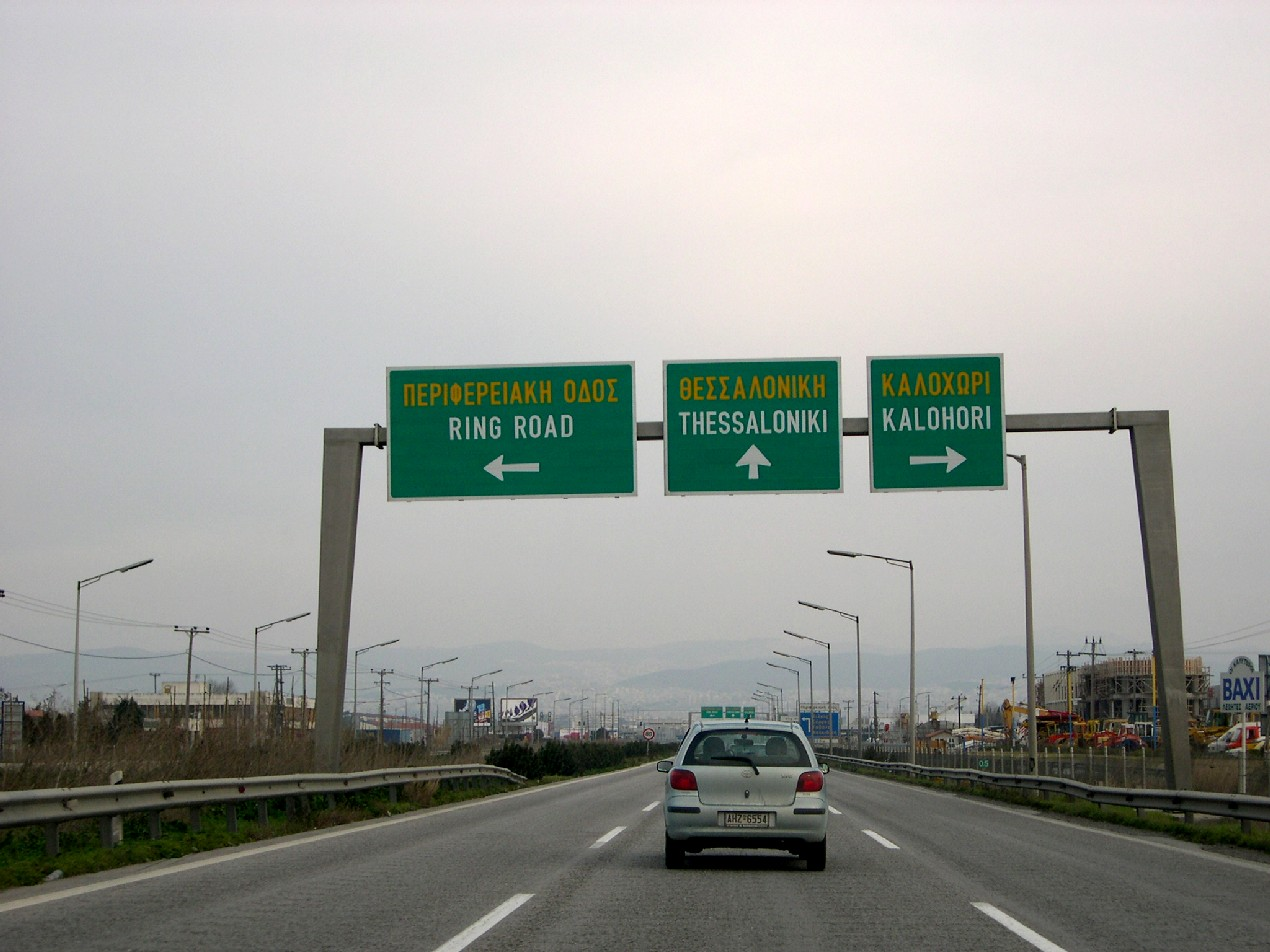 The west entrance of Thessaloniki, Greece from E90 national road. Note: This is acually not the E75, it is the E90 road at exit 6 at Kalohori just outside Thessaloniki.